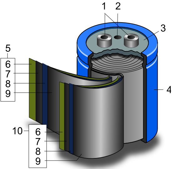 Electric double-layer capacitor (Activated carbon electrode - Tube type) No Text 1.Terminal 2.Safety valve 3.Terminal board 4.Container 5.Positive pole 6.Separator 7.Polarization electrode 8.Collector 9.Polarization electrode 10.Negative pole